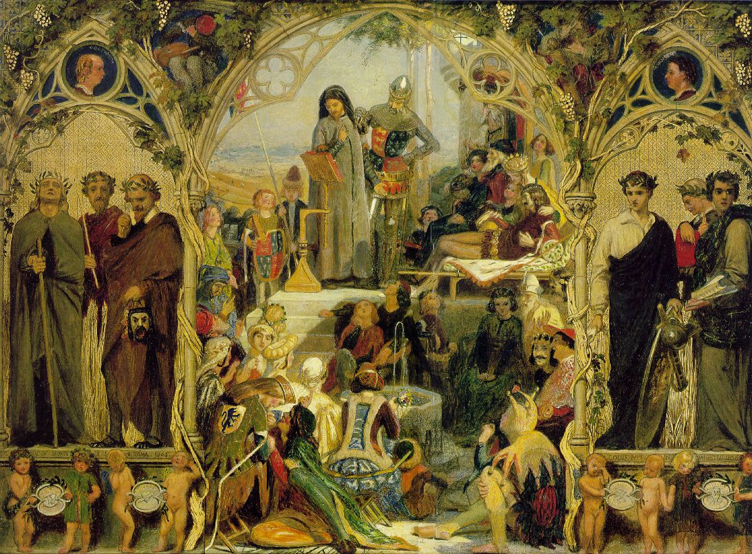 The Seeds and Fruits of English Poetry, oil on canvas, 13 3/8 x 18 1/8 in